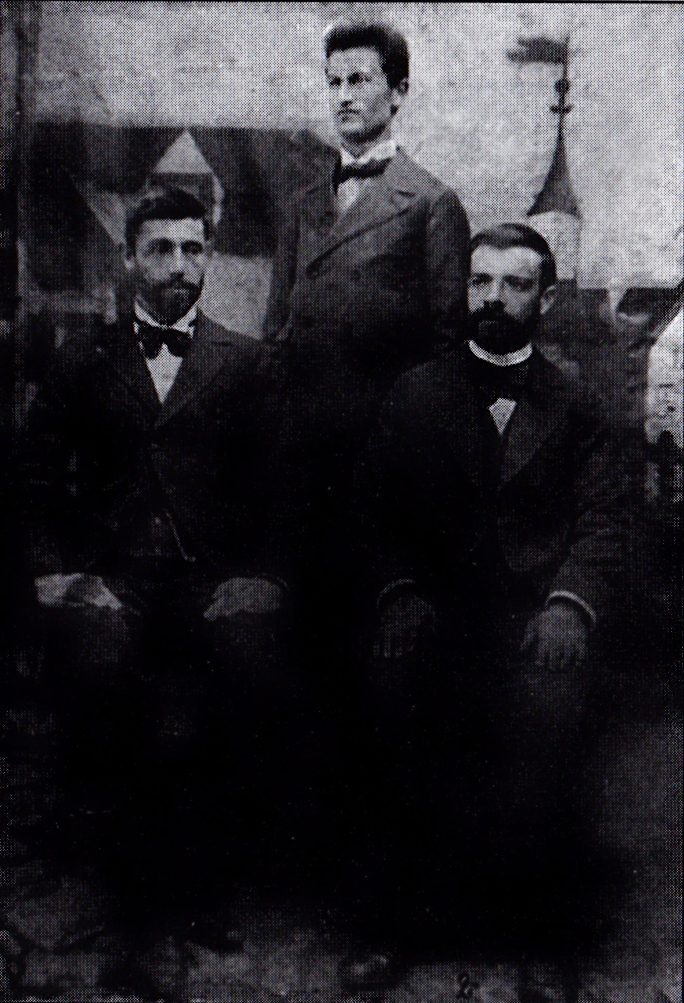 bulgarian revolutionary/ies